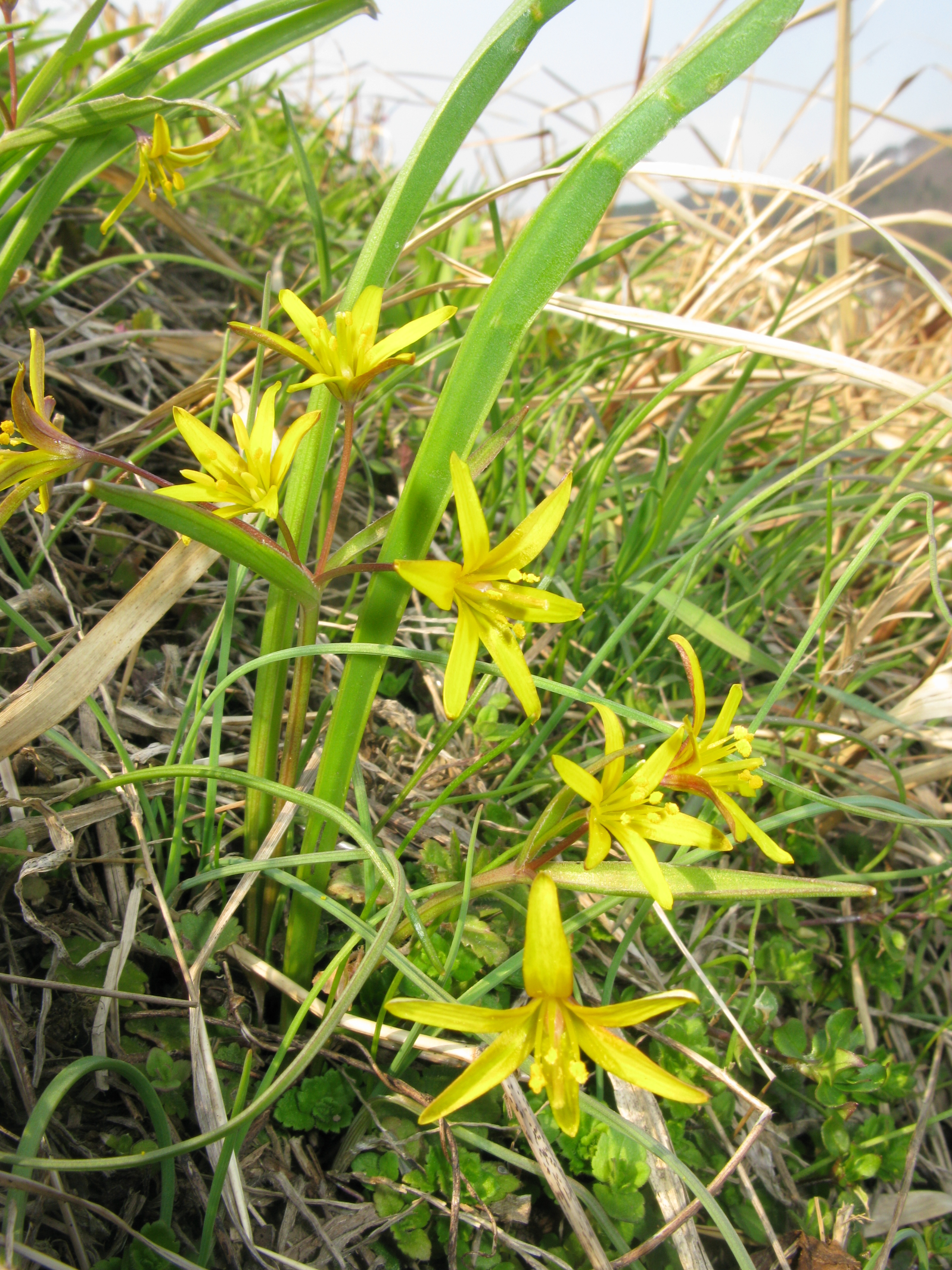 Gagea lutea,Aizu area,Fukushima pref.,Japan